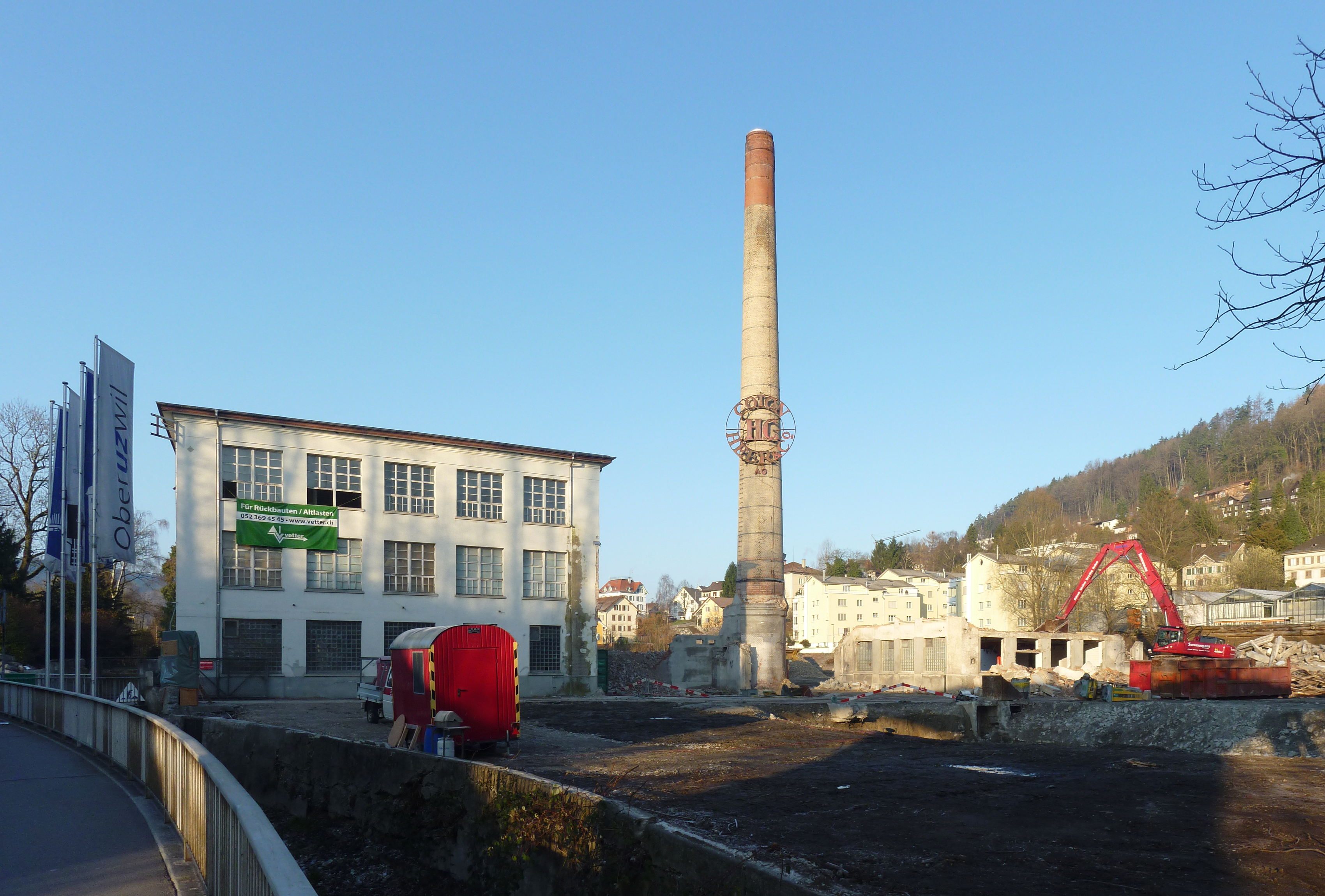 Smokestack of HC Färberei Oberuzwil, formerly known as Heer & Co. 2 weeks before demolition of the factory in 2011. Stitched of 3 images.